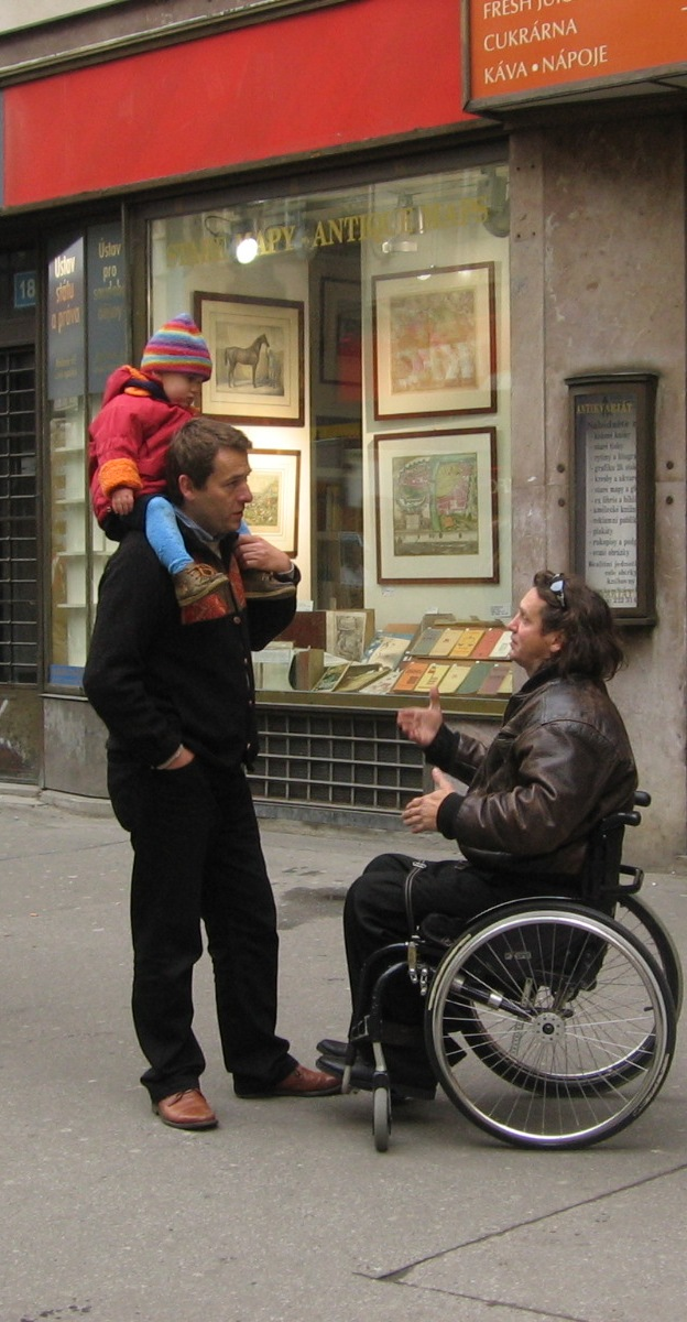 Šimon Pánek (left), one of student leaders of Velvet Revolution and Jan Potměšil, Czech actor